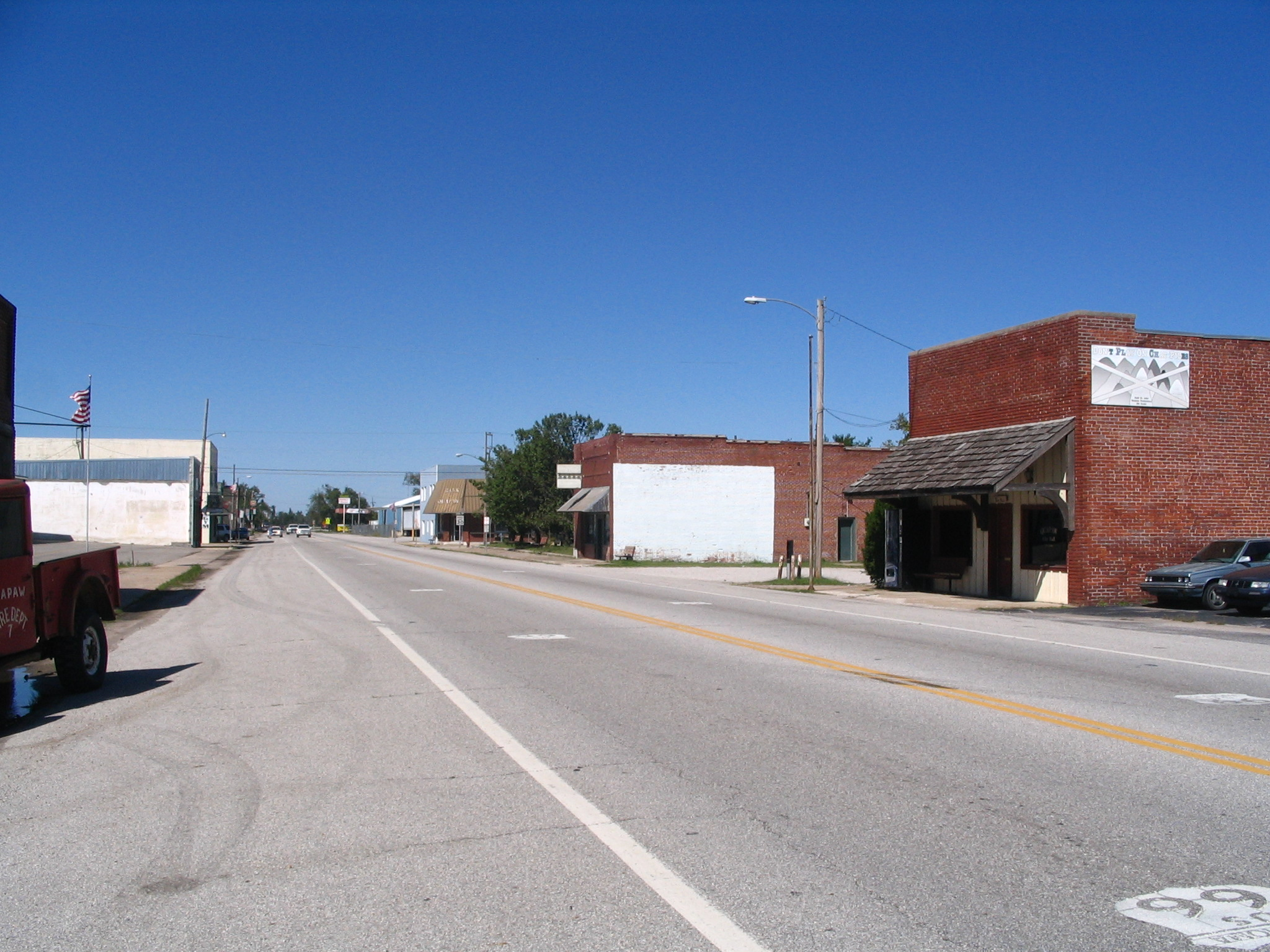 Route 66 passing through Quapaw, OK